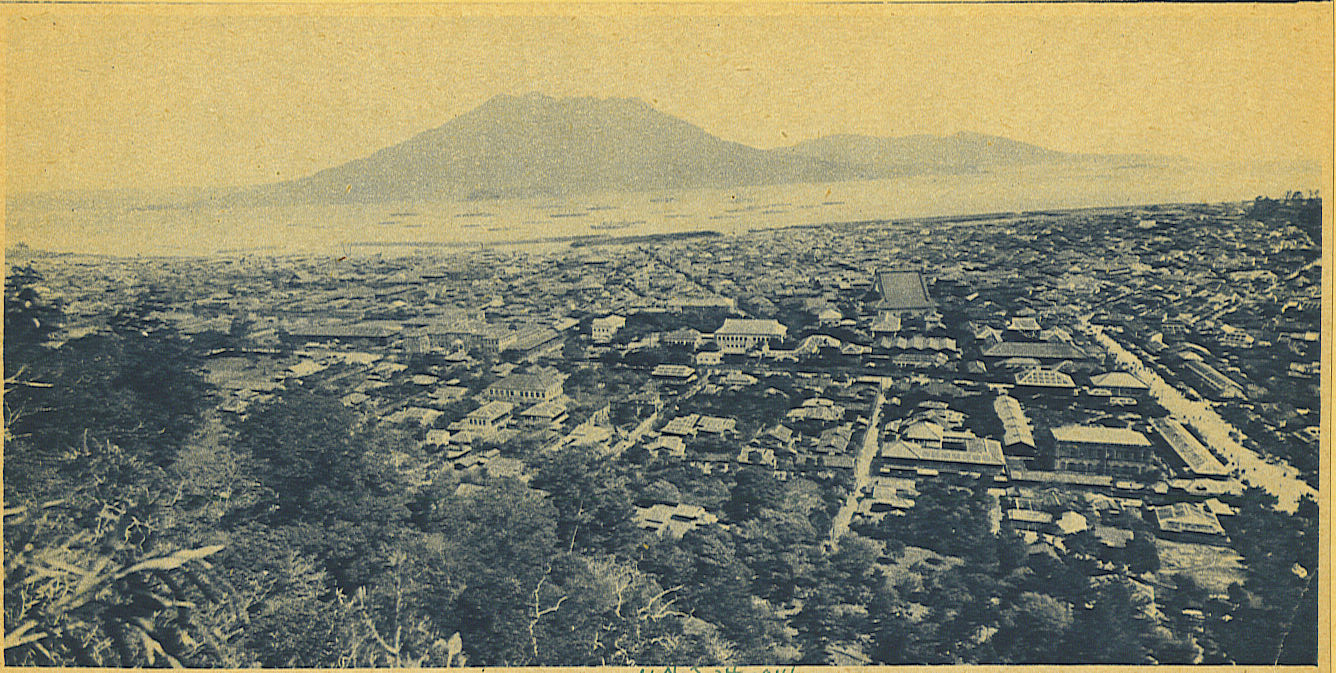 "The City now covered deep in ashes and, facing it, the cause of the disaster: Kagoshima and the volcano of Sakurashima on the right of the latter an islet which, according to tradition, is the top of the volcano, blown off during a former eruption."